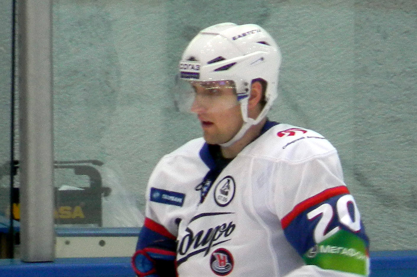 Konstantin Alexeev, an ice-hockey player from HC Sibir Novosibirsk